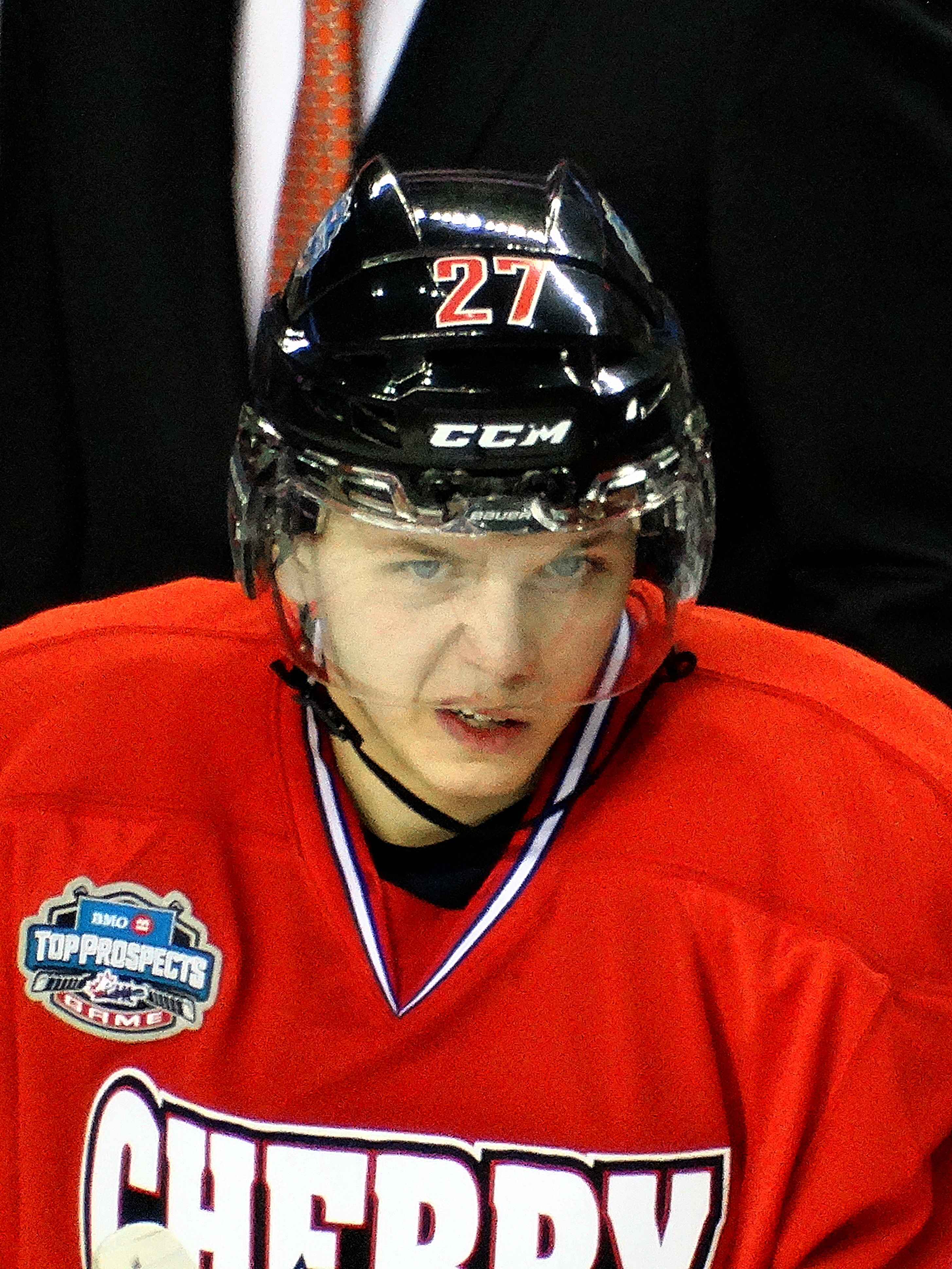 Nikita Scherbak, Russian ice hockey right winger at the CHL / NHL Top Prospects Game